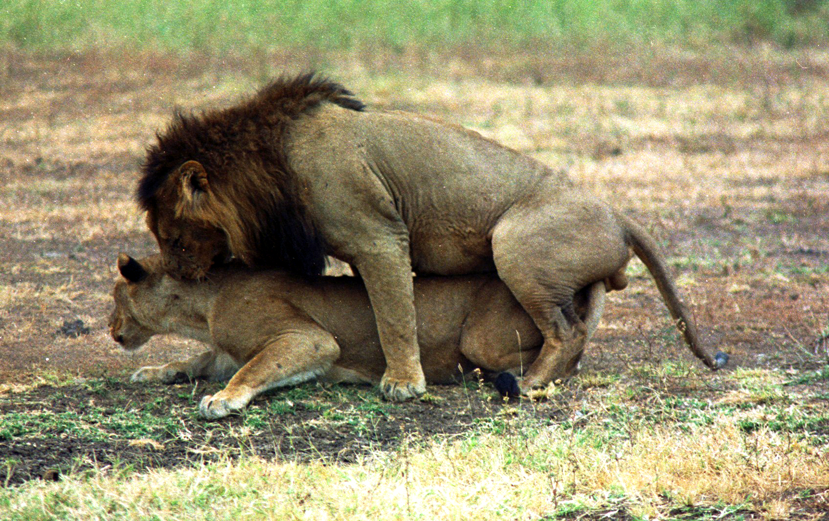 Lions (Panthera leo nubica) at Serengeti National Park